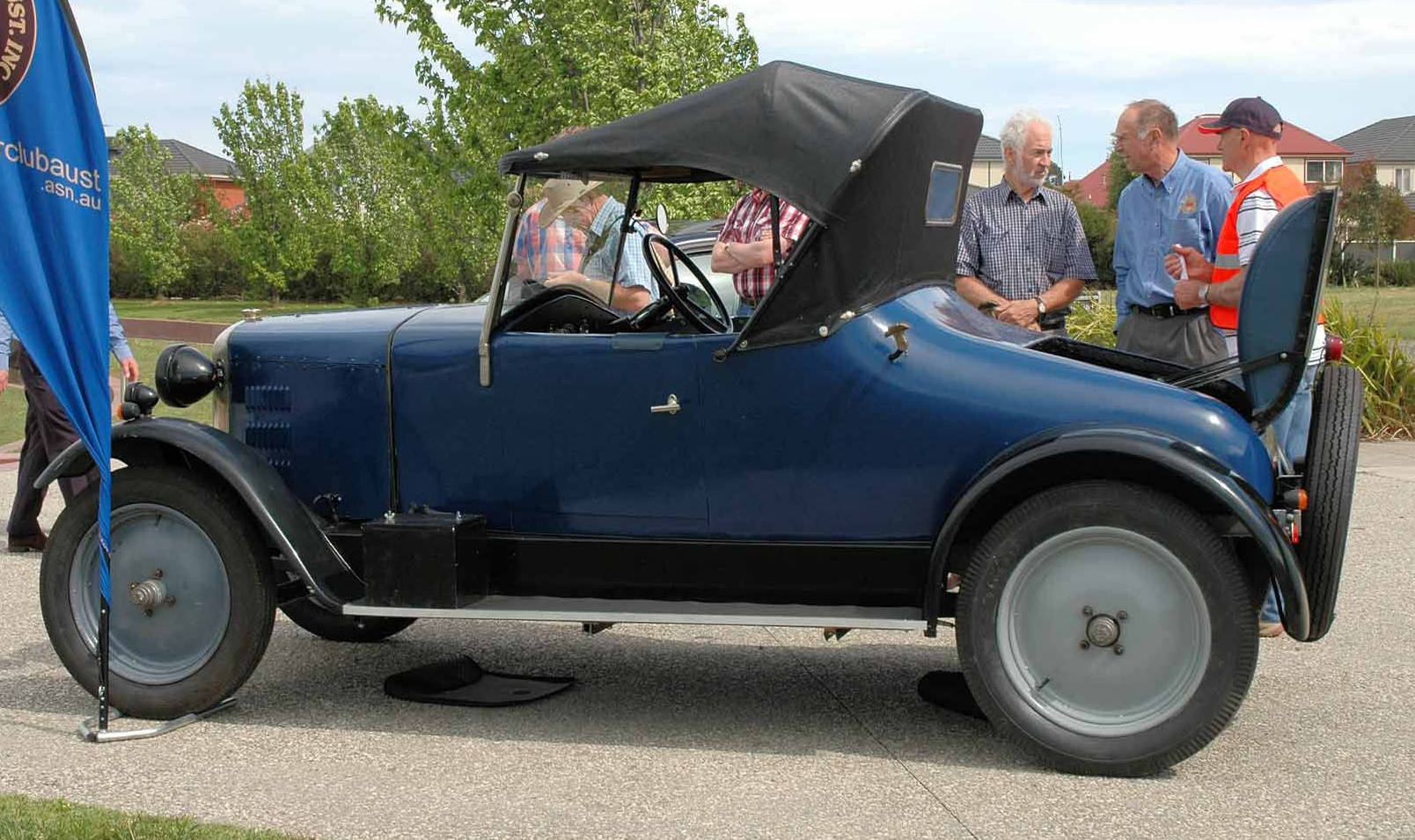 1925 Rover 9 open 2-seater Rover Car Club of Australia RCCA 50th Anniversary Display 2008